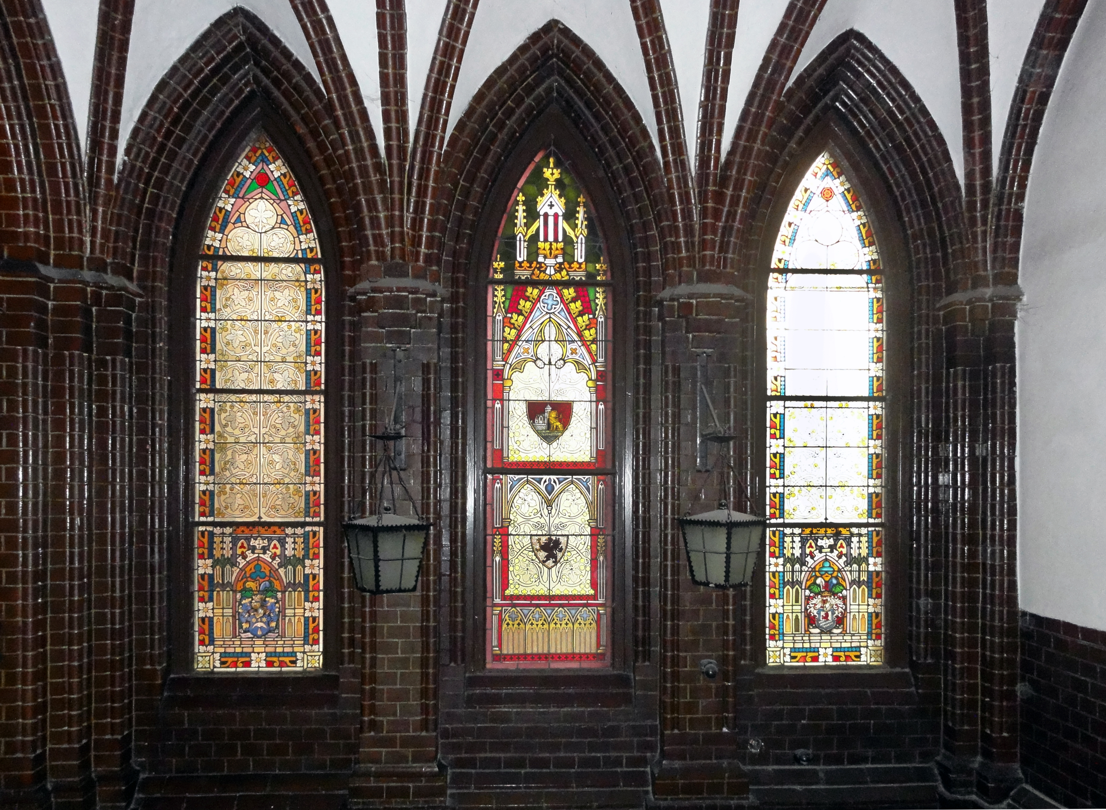 Stained-glass windows in Lębork's Town Hall